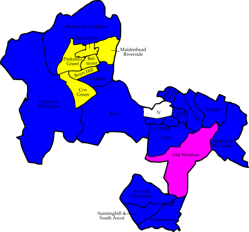 A map of the results of the 2007 Windsor and Maidenhead Council election. Colour legend by wards won: Conservative party Liberal Democrats Old Windsor Residents' and Ratepayers' Association Independent